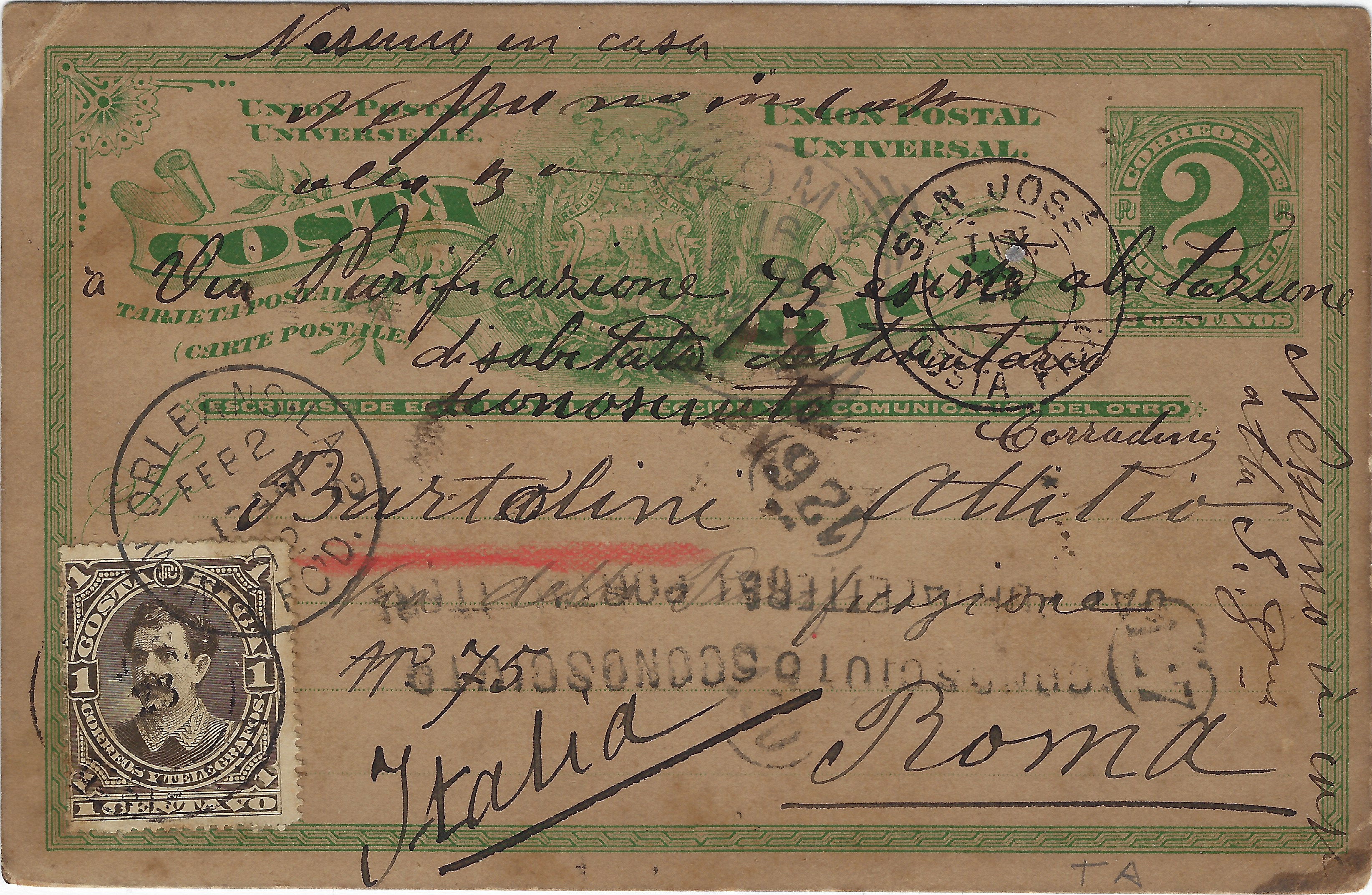 1889 Bernardo Soto Series